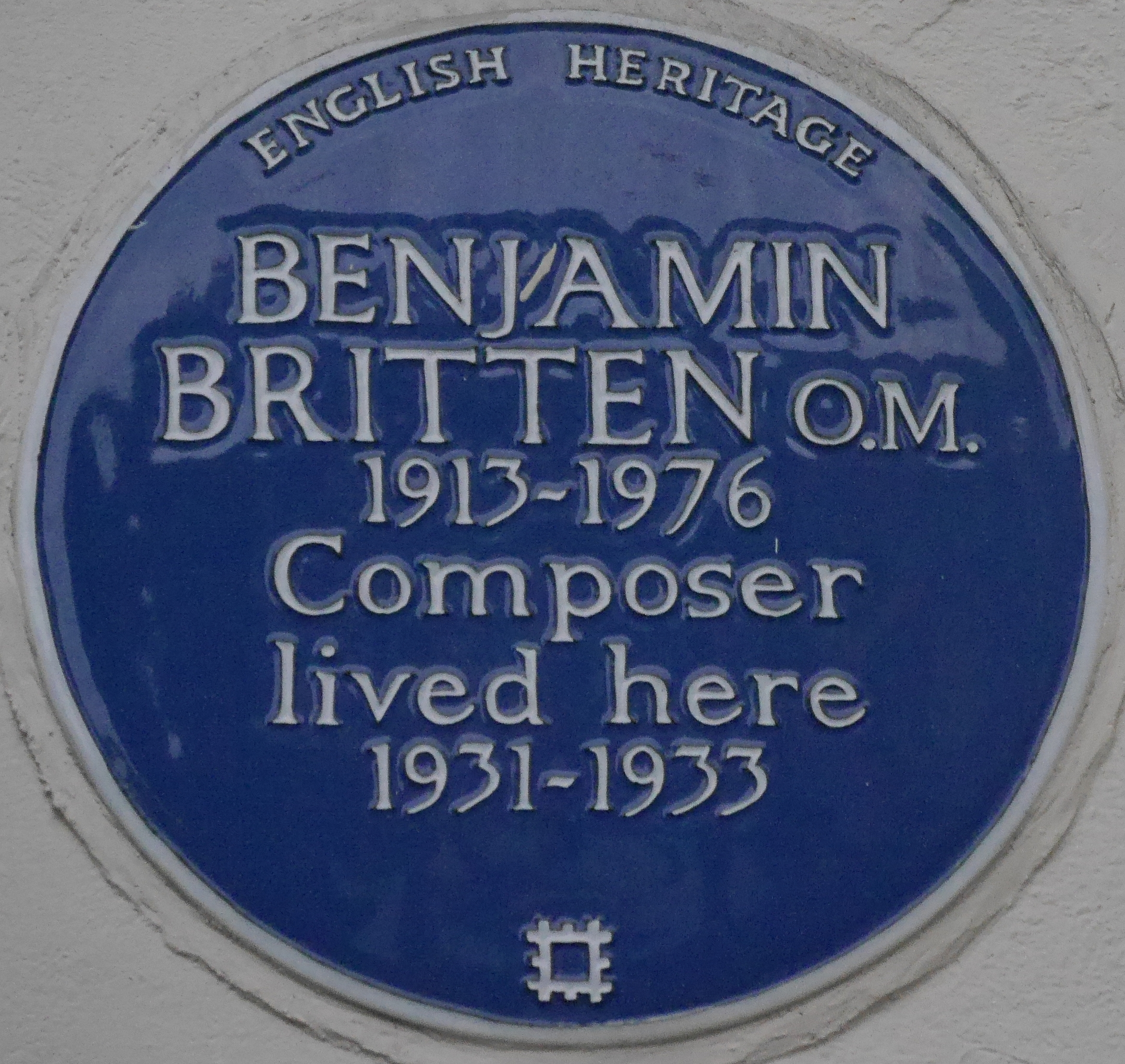 Benjamin Britten 137 Cromwell Road blue plaque